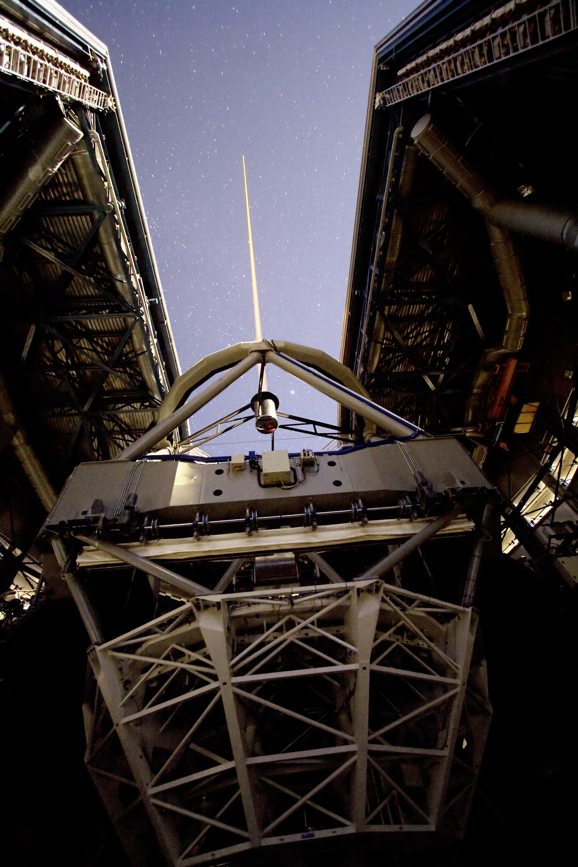 A laser beam shoots out of Yepun, the fourth Unit Telescope of Europe’s flagship observatory, ESO’s Very Large Telescope (VLT). This beam is used to create an artificial star above Paranal to assist the adaptive optics instruments on the VLT. Adaptive optics is a technique that allows astronomers to overcome the blurring effect of the atmosphere and obtain images almost as sharp as would be possible if the whole telescope were placed in space, above Earth's atmosphere. Adaptive optics, however, requires a nearby reference star that has to be relatively bright, thereby limiting the area of the sky that can be surveyed. To overcome this difficulty, astronomers at Paranal use a powerful laser that creates an artificial star where and when they need it. Launching such a powerful laser from a telescope is a state-of-the-art technology, whose set-up and operation is a continuous challenge. As seen from the image, this is, however, a technology now well mastered on Paranal. The image was taken from inside the dome of the telescope and reveals nicely how the laser is located on top of the 1.2-metre secondary mirror of the telescope.